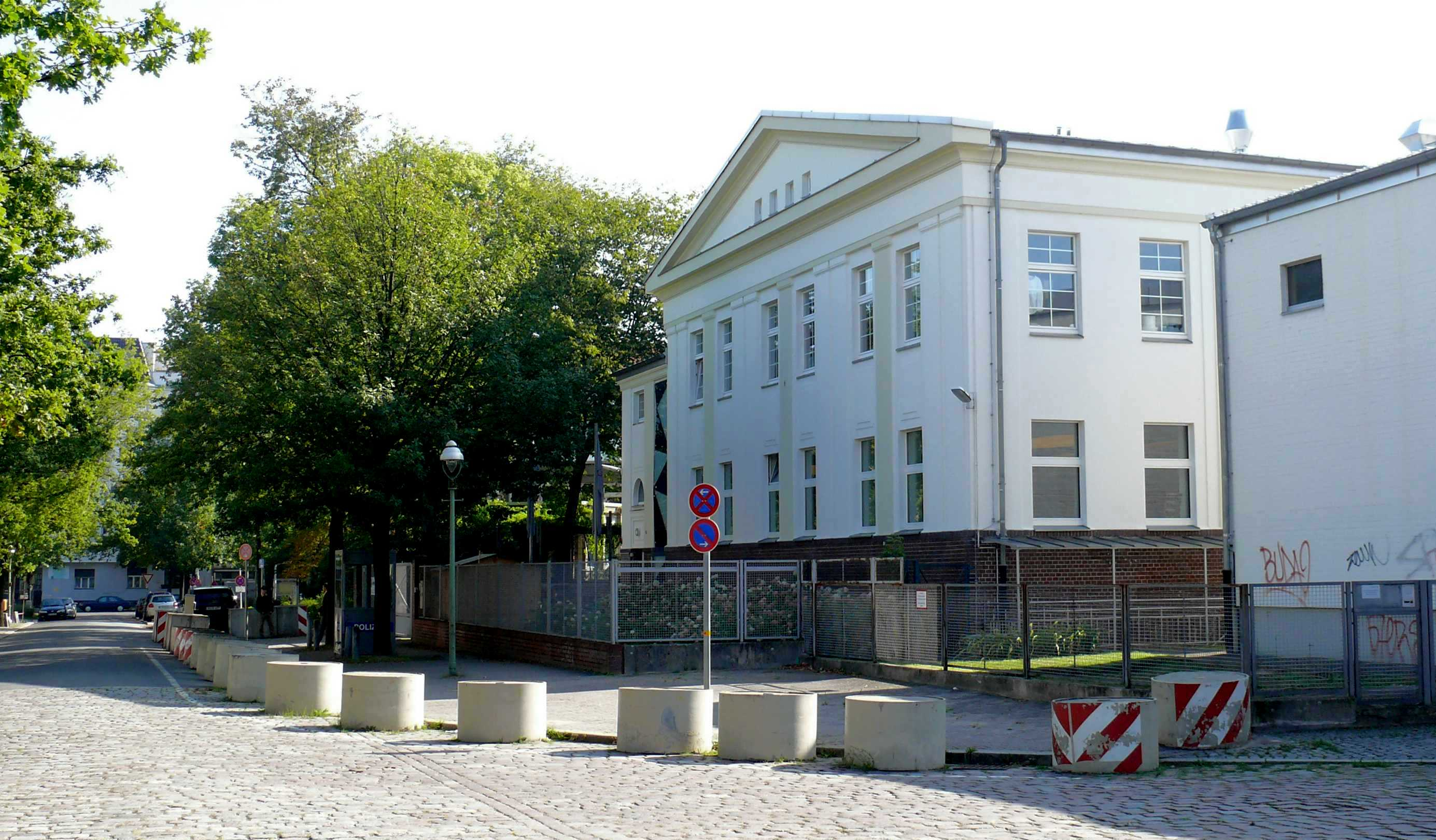 Berlin-Wilmersdorf Münstersche Straße Chabbad Lubawitsch